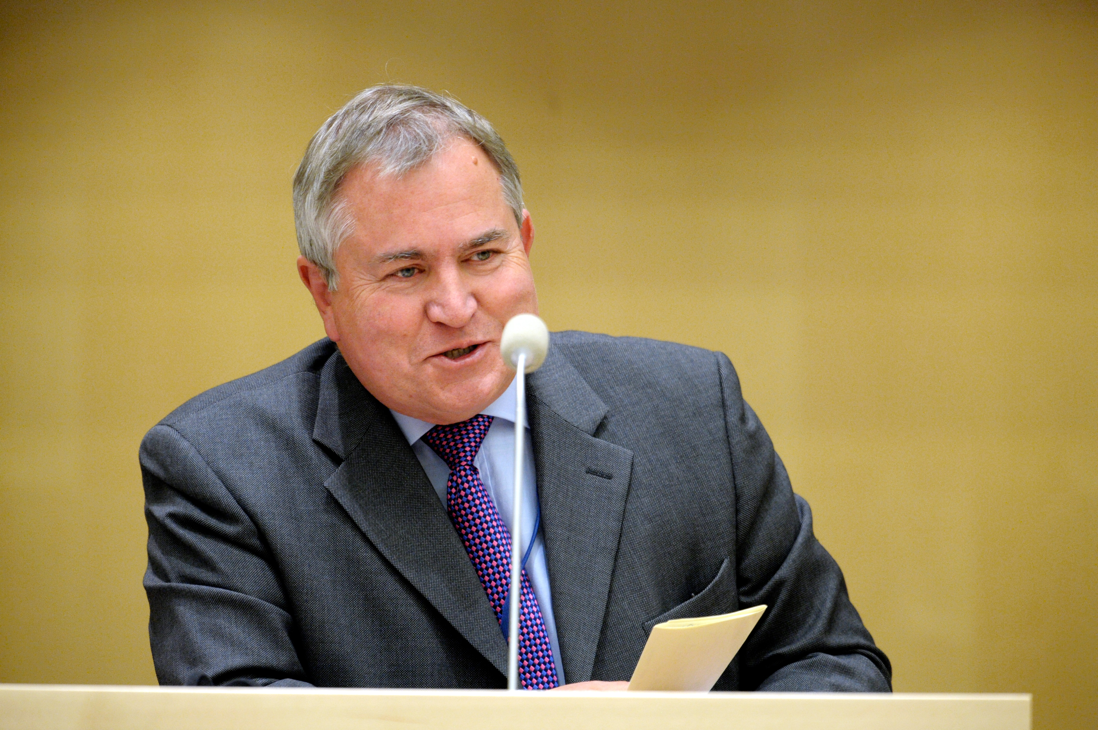 Robert Walter, president European security and Defence Assembly. Session 2009.